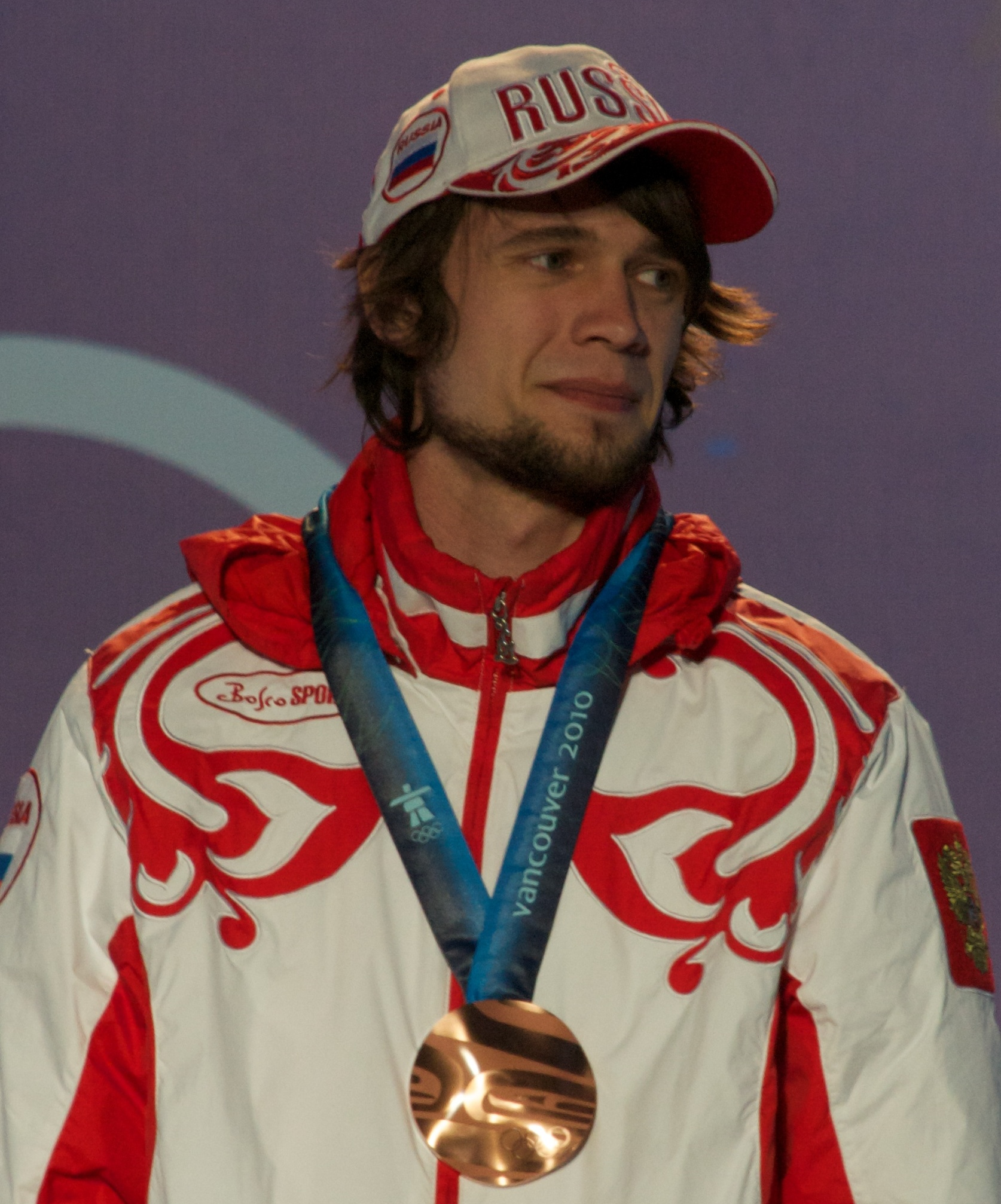 Alexander Vladimirovich Tretiakov (Russian: Александр Владимирович Третьяков) (born April 19, 1985 in Krasnoyarsk) is a Russian skeleton racer. The Medal Ceremony at Whistler on Day 9 of the Vancouver 2010 Winter Olympics.